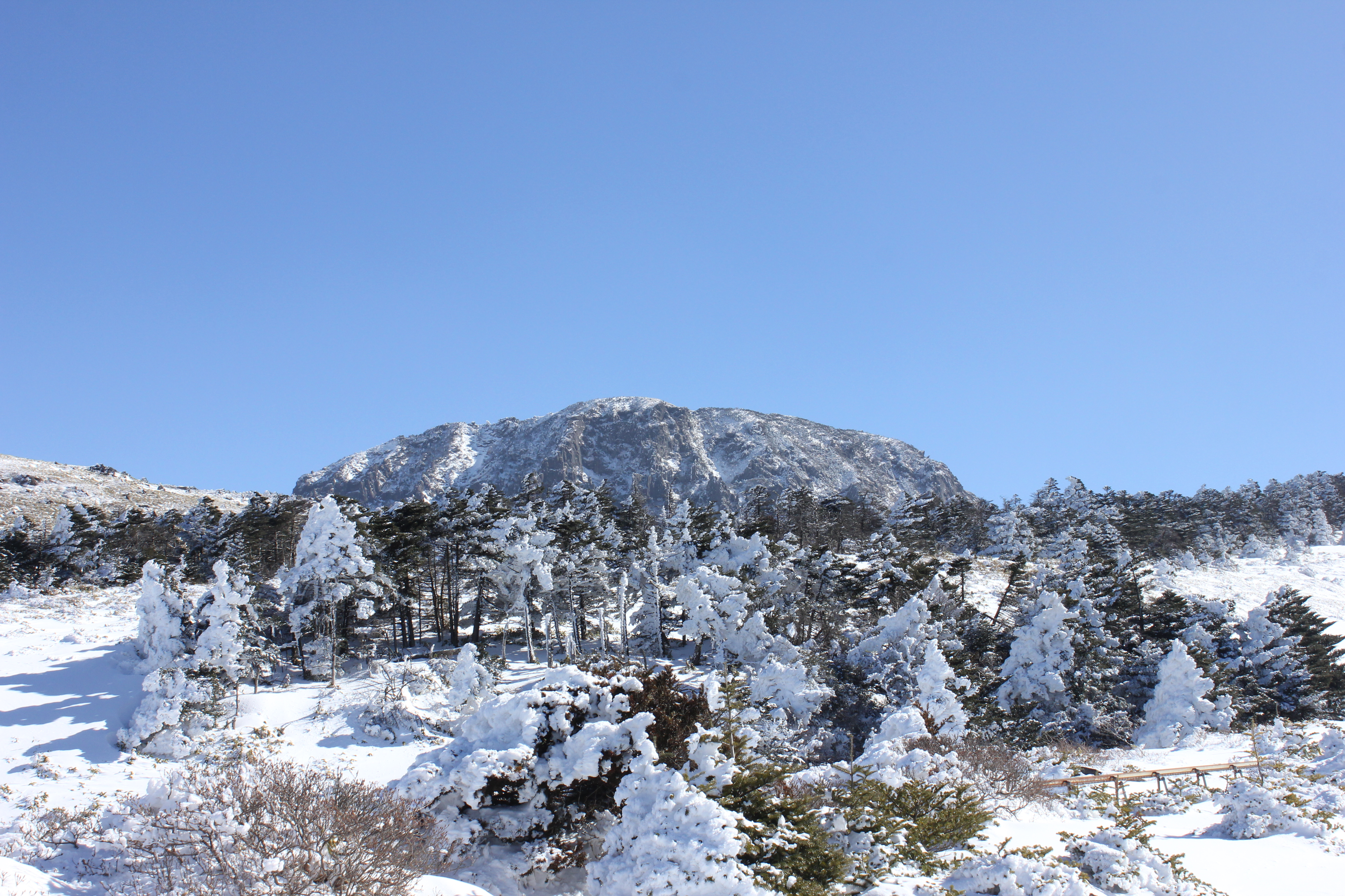 백록담